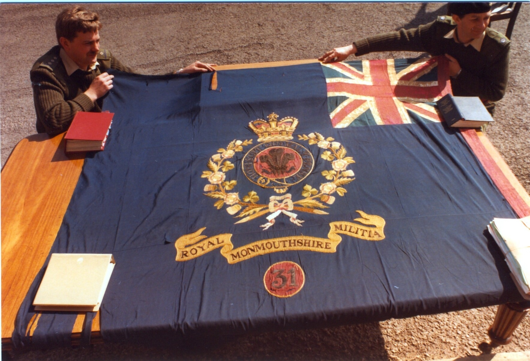 The colours of the Royal Monmouthshire Royal Engineers on display on the regiment's parade ground in Momouth. Image donated by Monmouth Regimental Museum, where the colours are now housed.